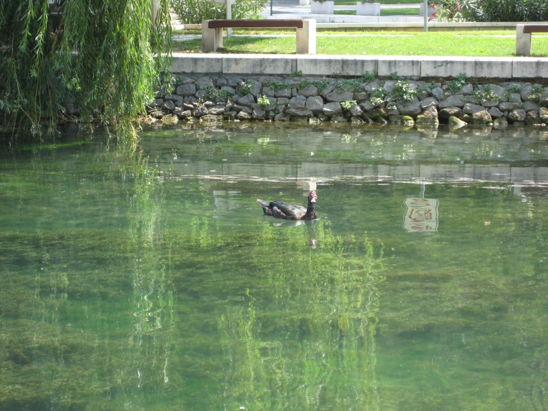 Jadro, Solin, Croatia